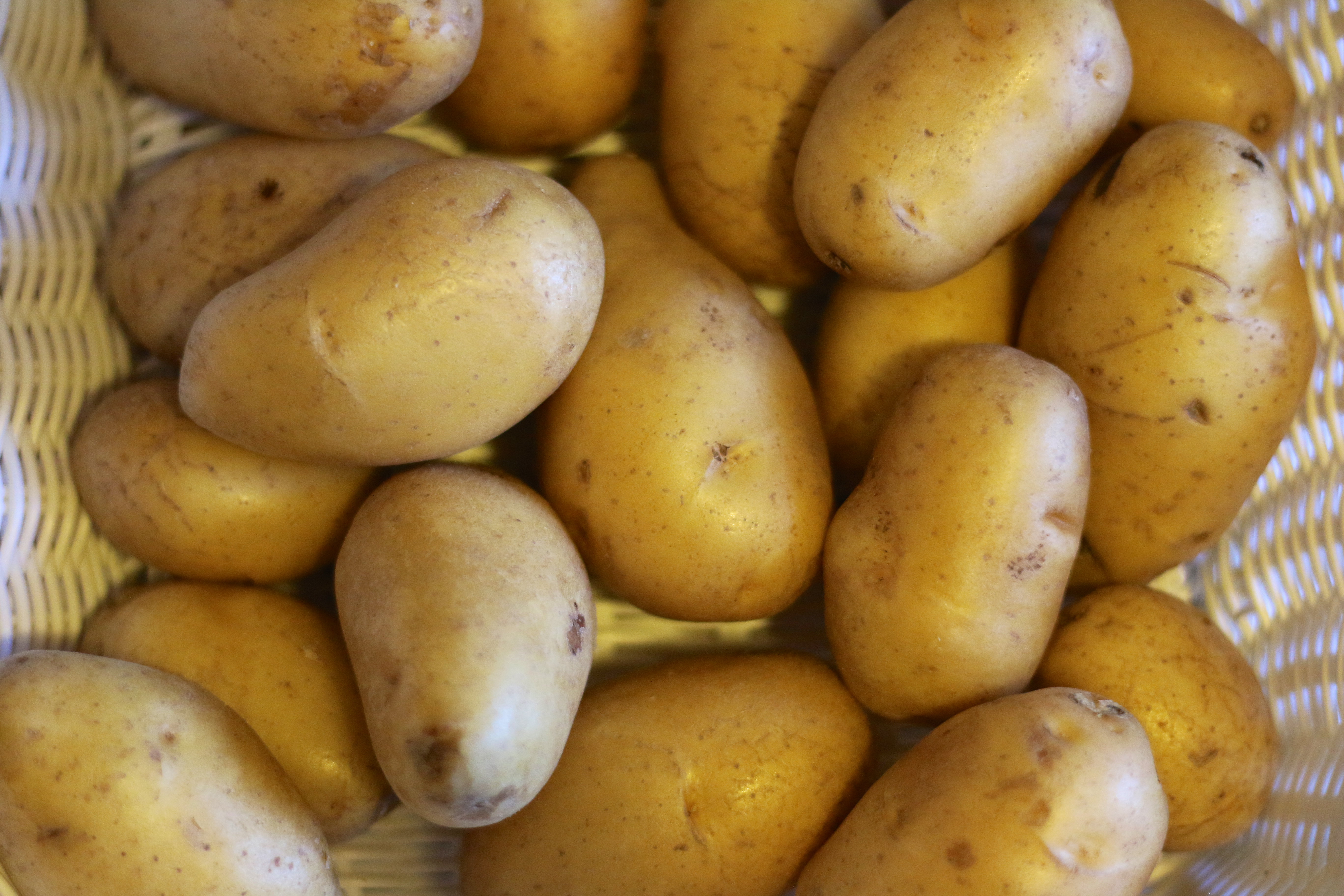 potatoes, sort: Nicola